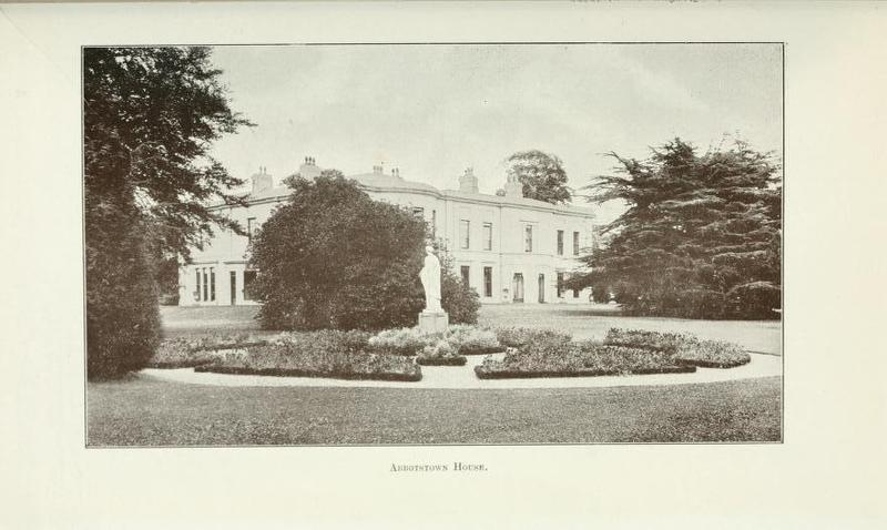 19th Century Postcard photograph of Abbottstown House, Castleknock, Dublin 15. Ireland.